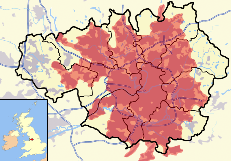 A map "roughly" outlining the Office for National Statistics' official Greater Manchester Urban Area conurbation territory, superimposed in red over the county of Greater Manchester. Image based on ONS material from 2001.